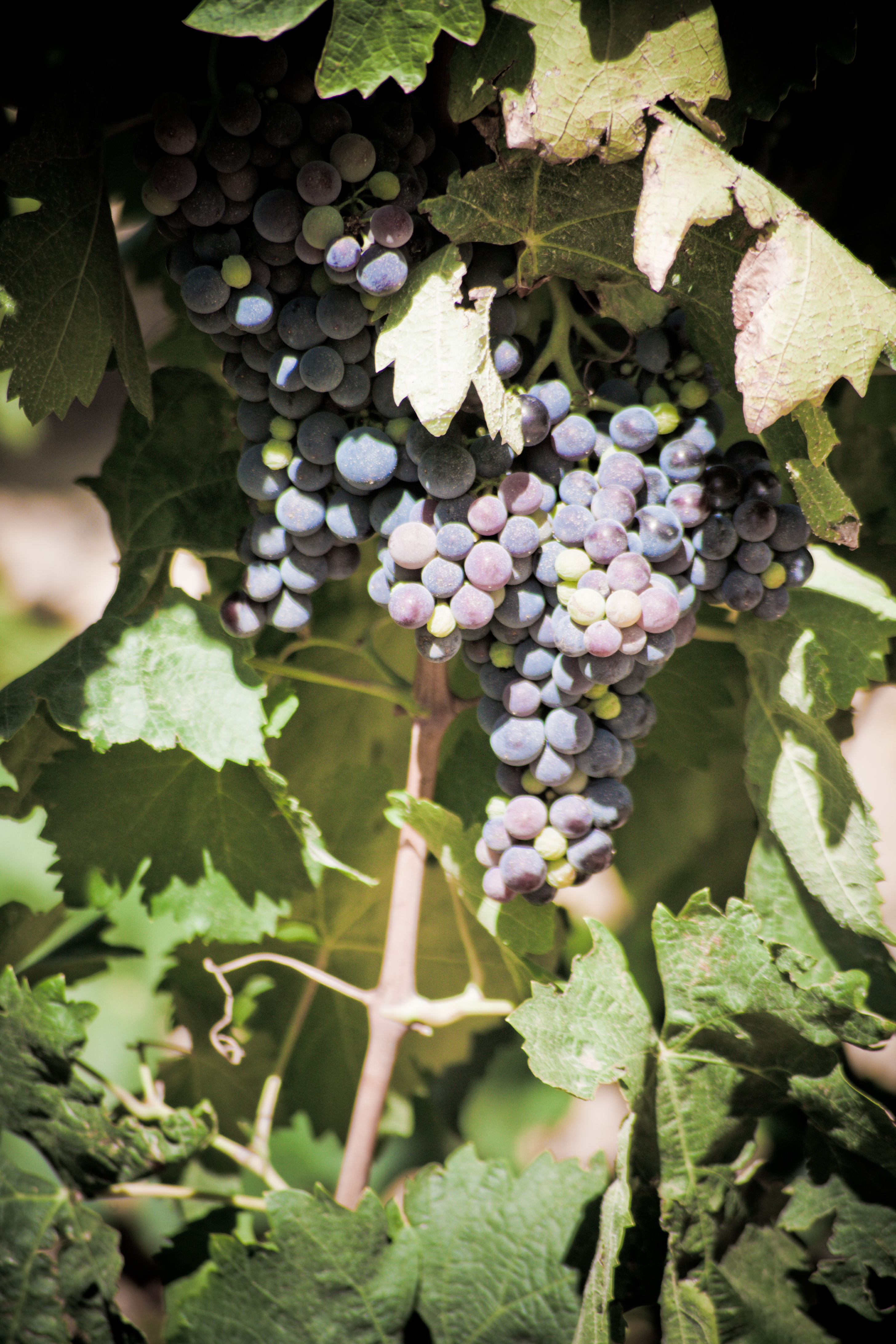 Wine grapes going through veraison in the French wine region of the Minervois AOC in the Languedoc.